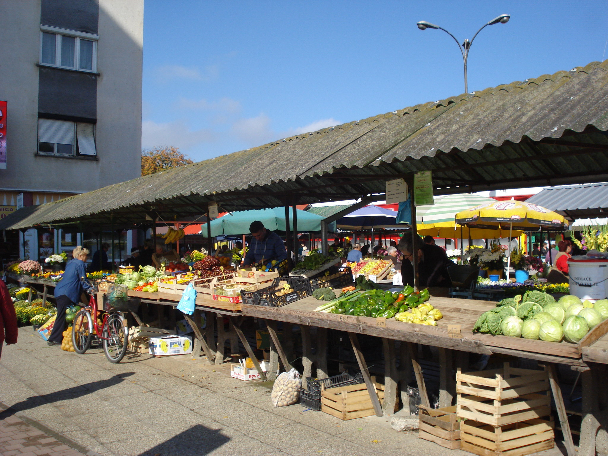 Market place in Čakovec, Croatia - vegetables